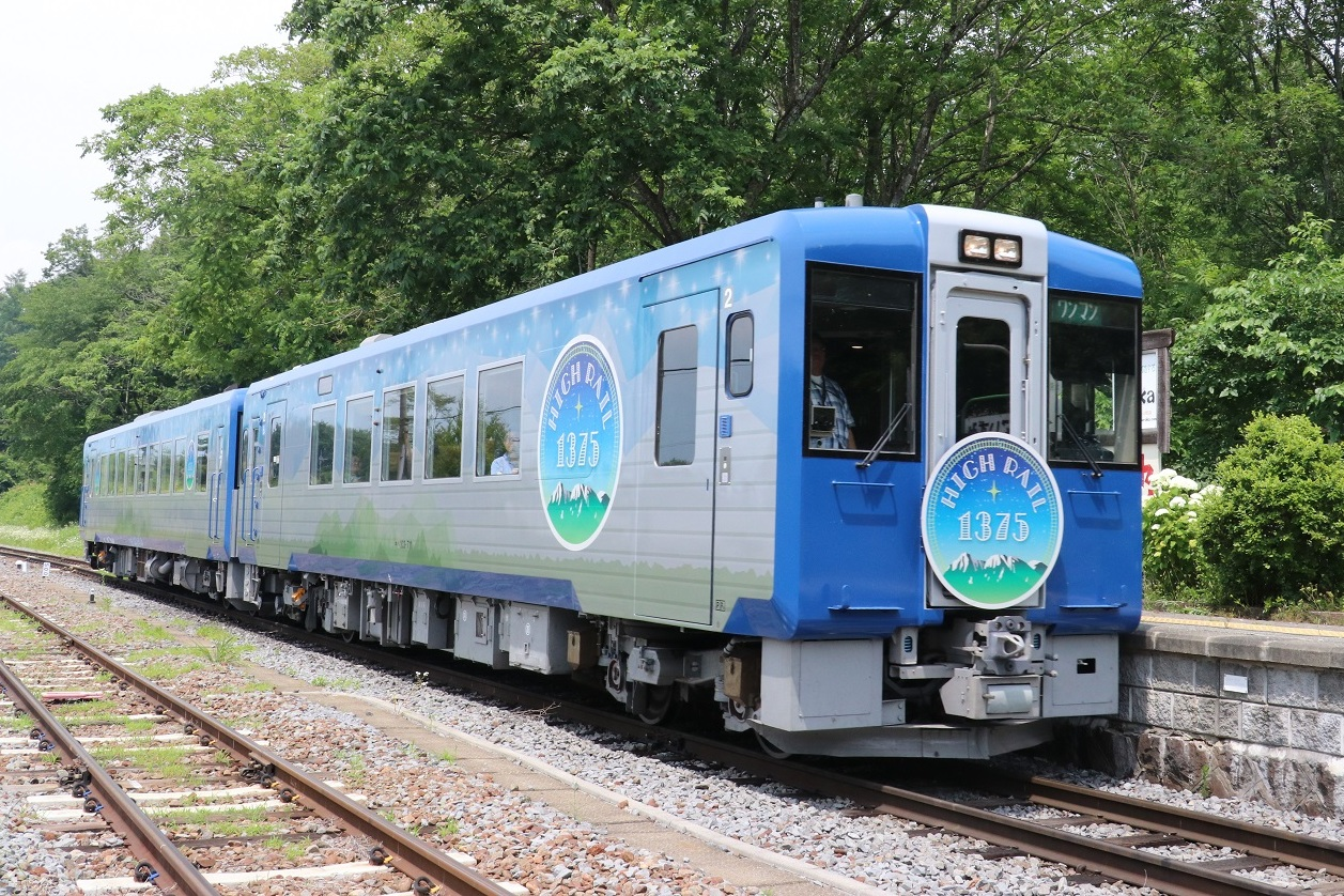 The JR East "High Rail 1375" two-car DMU set formed of cars KiHa 103-711 (nearest camera) and KiHa 112-711 at Kai-Koizumi Station on the Koumi Line in Yamanashi Prefecture, Japan